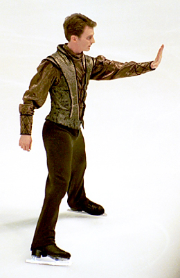 Todd Eldredge competes his long program at the 2001 Grand Prix Final in Kitchener, Ontario. Photo taken by me, Vesperholly 06:06, 17 July 2006 (UTC)